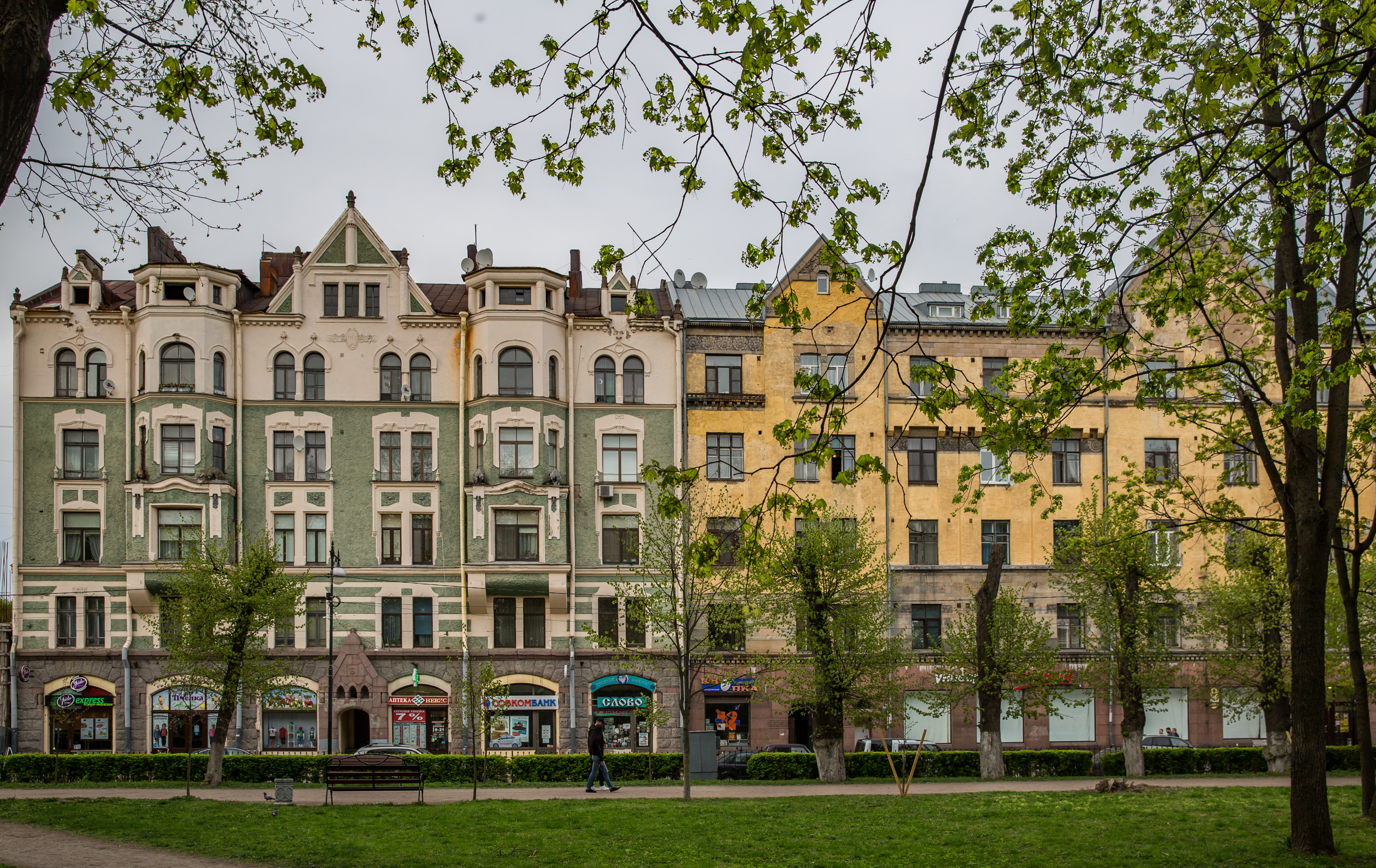 Finnish architecture in Vyborg, Lenin street 6.